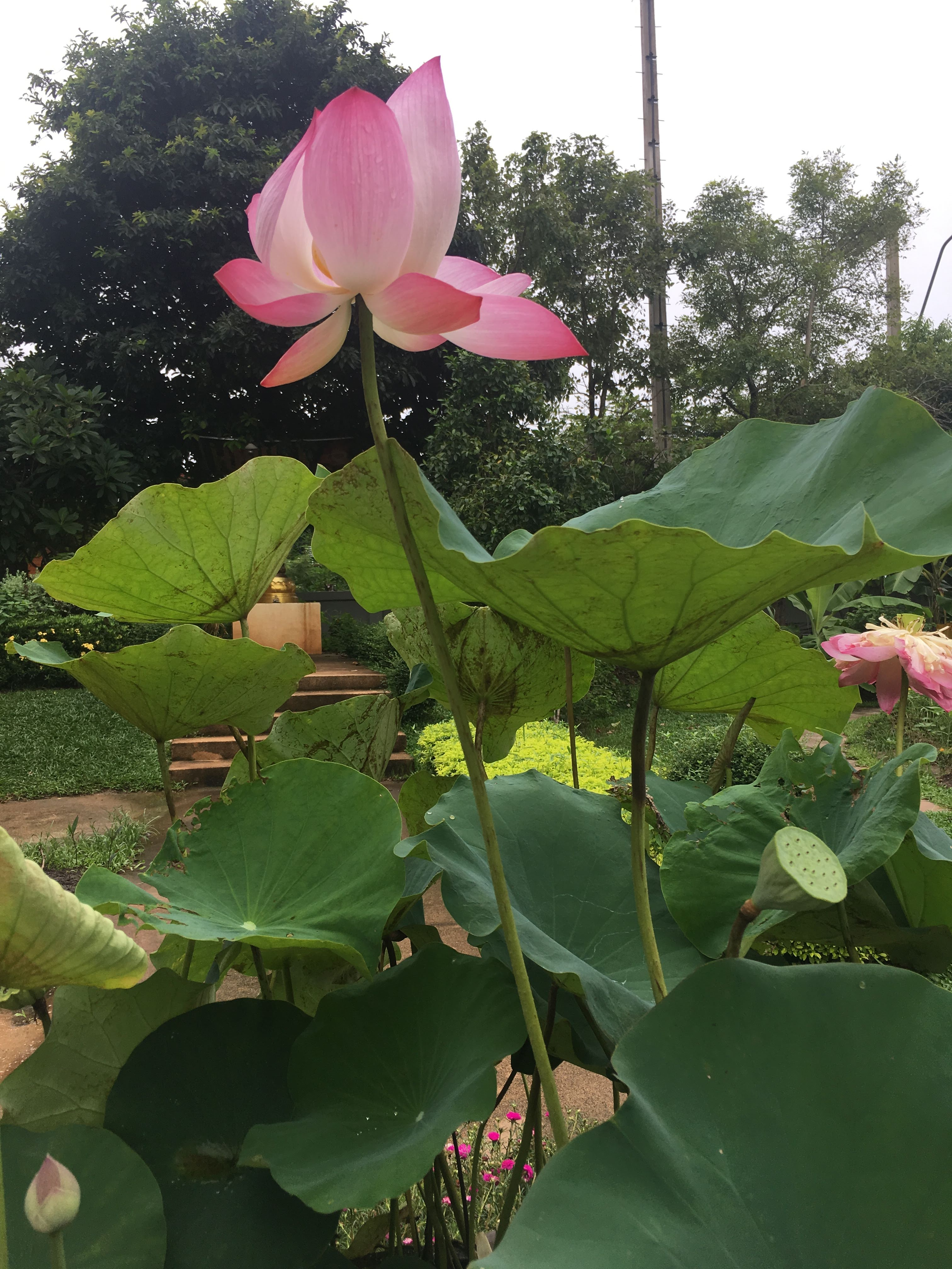 Ubon Ratchathani means the city of Lotus